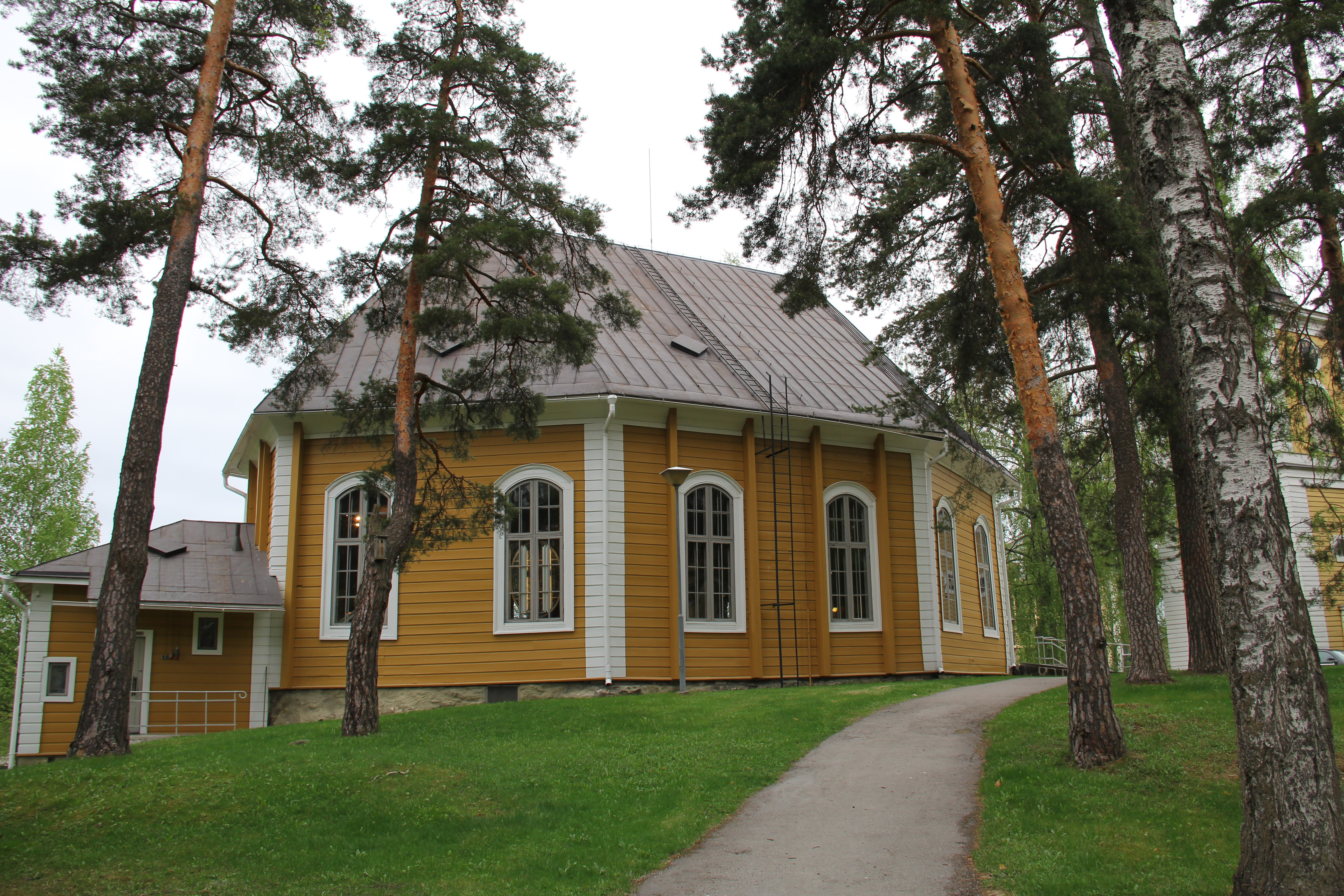 Heinola church, Heinola, Finland. Built by Mats Åkergren, completed in 1811.